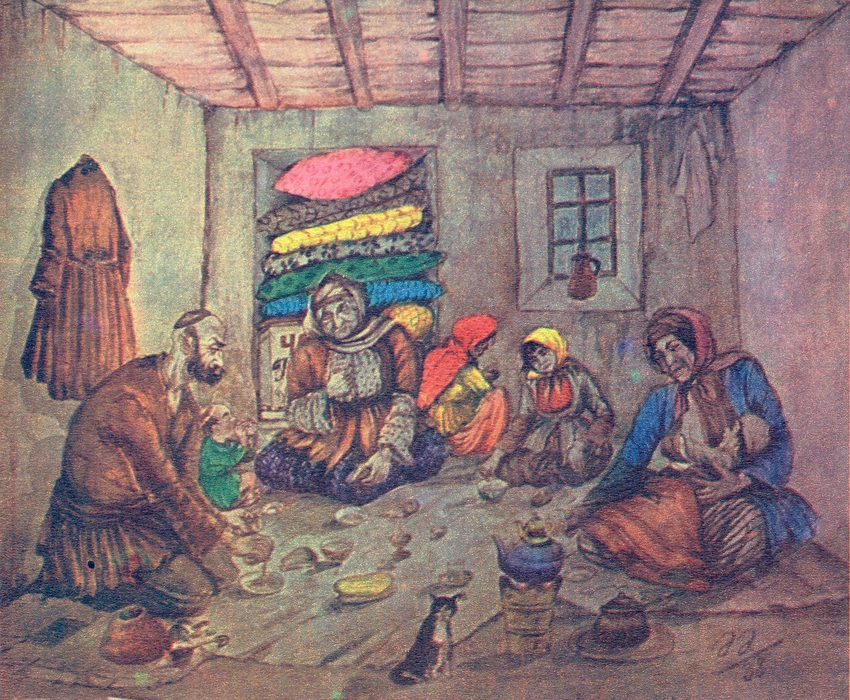 Ramazan with the poor. 1938